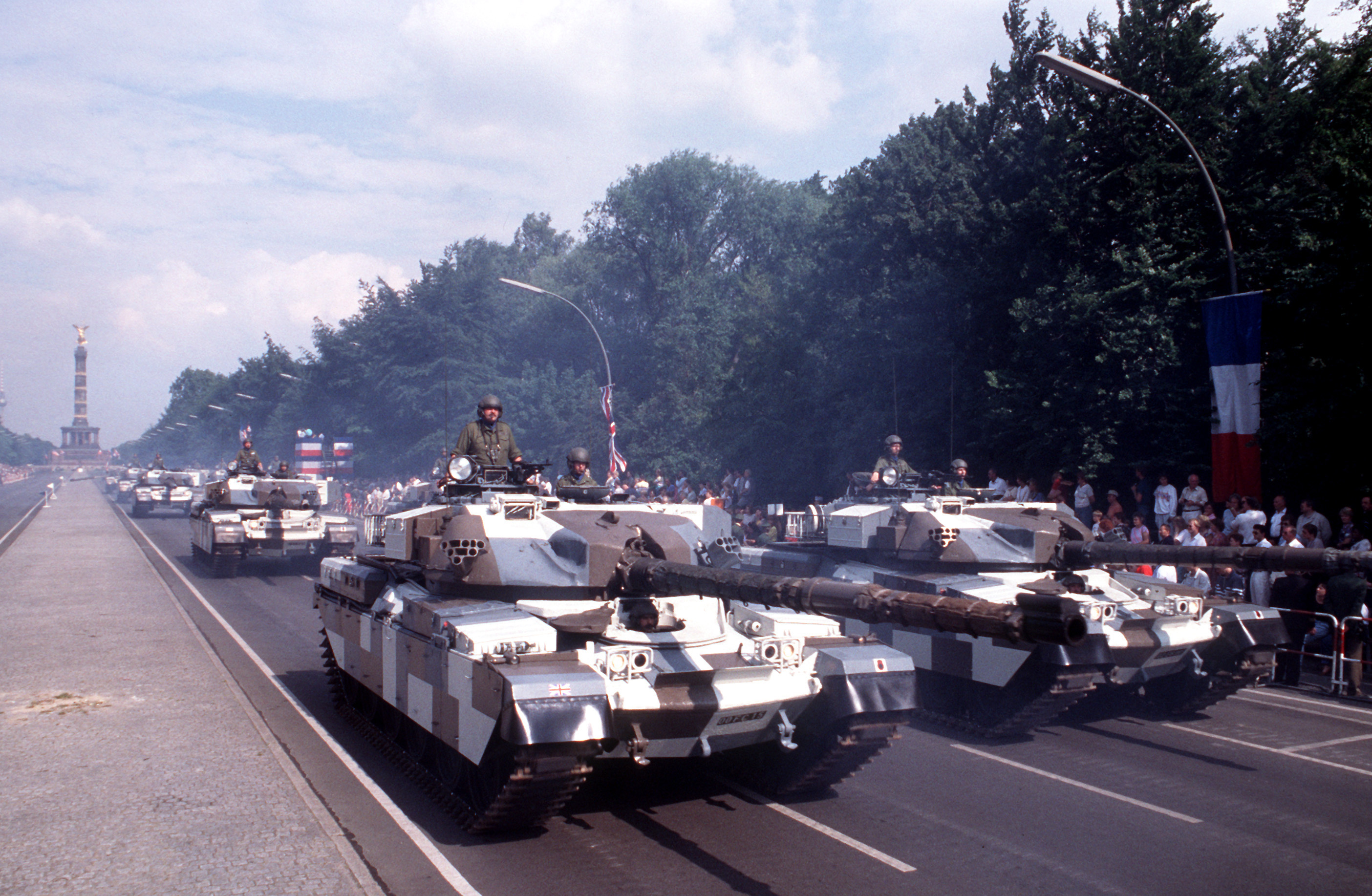 Two columns of British Chieftain main battle tanks drive along 17th of June Street during the final annual Allied Forces Day parade on Sunday June 18th, 1989 in West-Berlin. The "Siegessäule" (Victory Column) is in the background. Note: Although the source tells the date as 17 June 1989, this is provenly wrong, as this allied parade took place on June 18th, 1989.